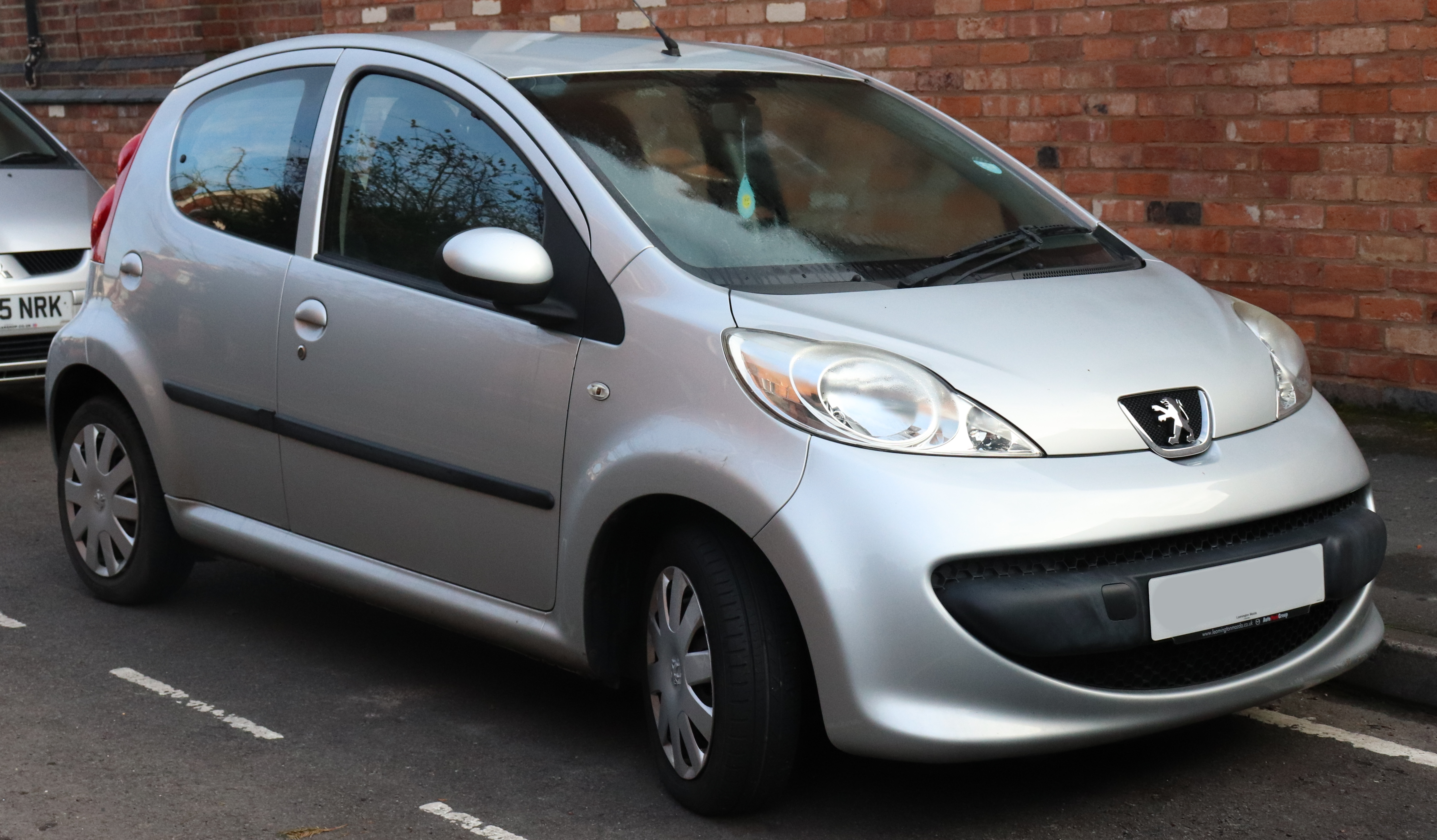 2007 Peugeot 107 Urban 1.0 Front Taken in Leamington Spa